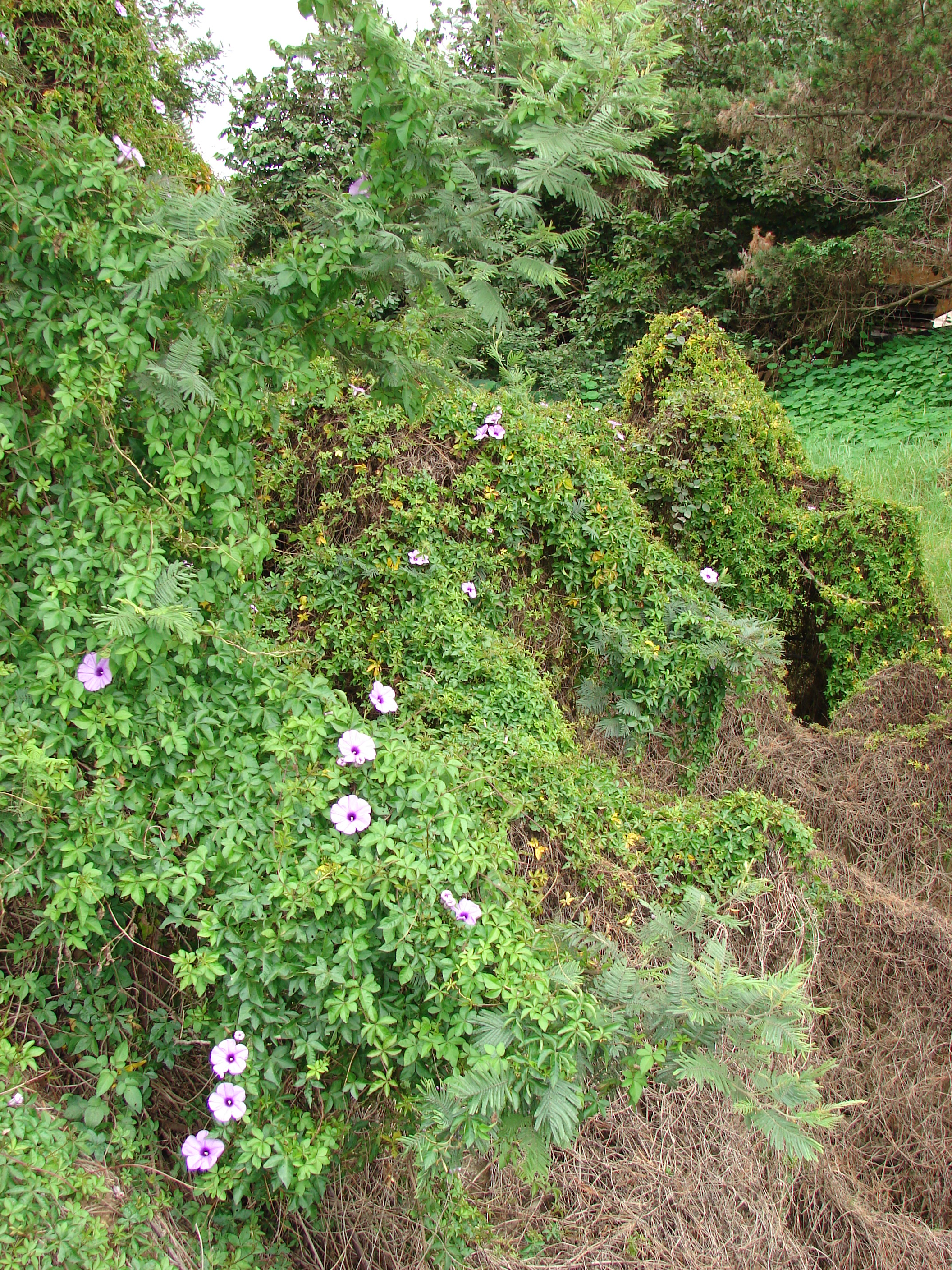 Ipomoea cairica (flowering habit in gulch). Location: Maui, Kula